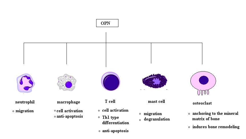 This diagram shows the currently known immunologic functions of Osteopontin (OPN).